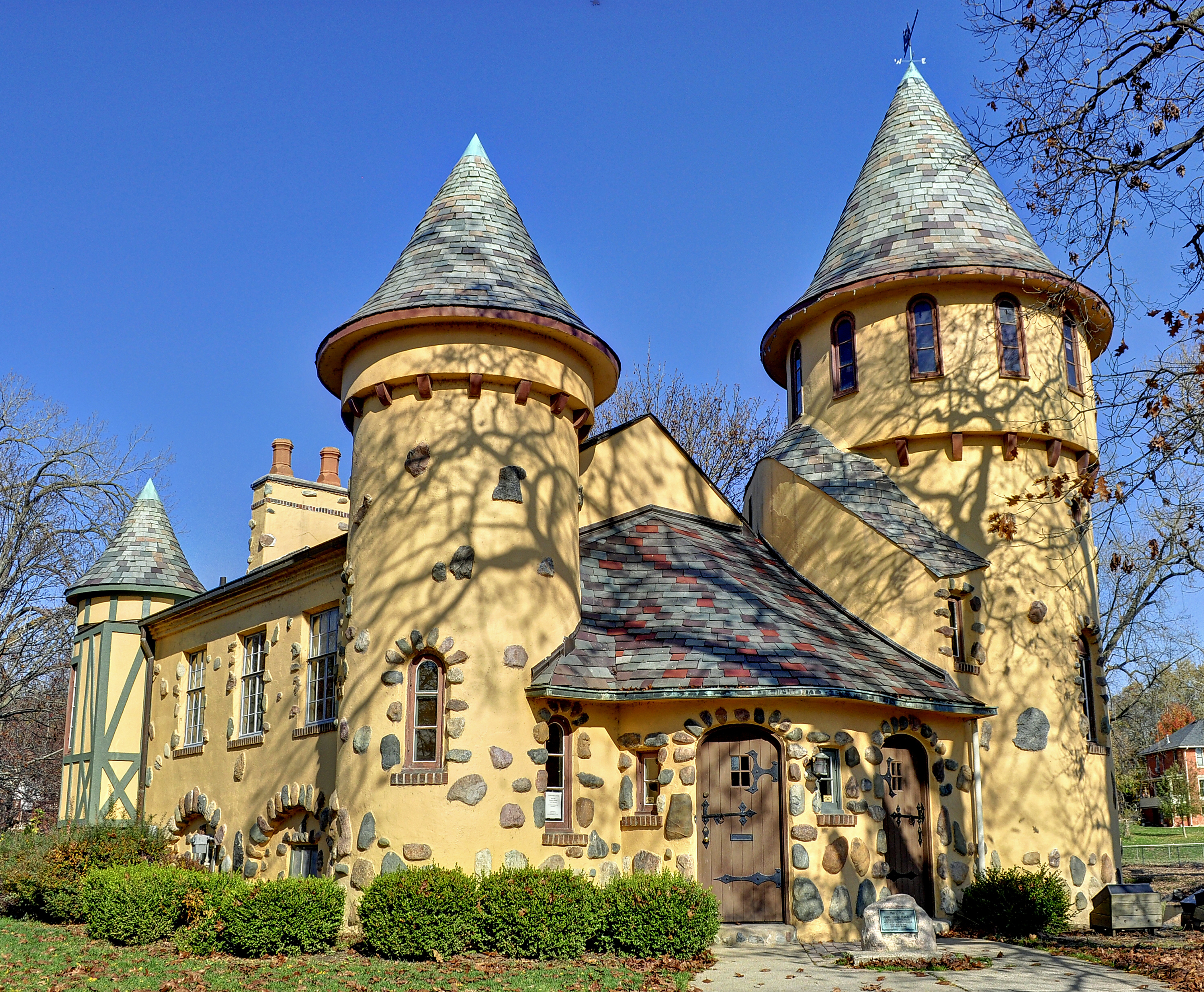 The NRHP-listed Curwood Castle in Owosso, Michigan.